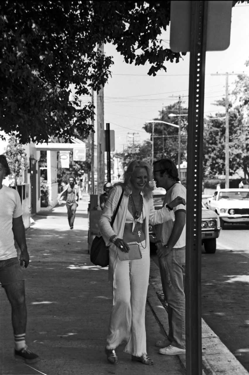 American actress Sylvia Miles on Duval Street, in Key West, Florida during the filming of 92 in the Shade in November 1974. Photo by Cory McDonald with Nikkormat 35mm.